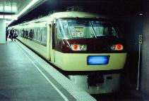 A Keisei AE series EMU in original livery on a Skyliner service at the Keisei-Ueno terminal in Tokyo